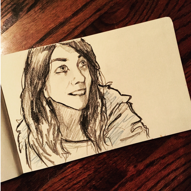 Portrait of the artist as a cartoon character